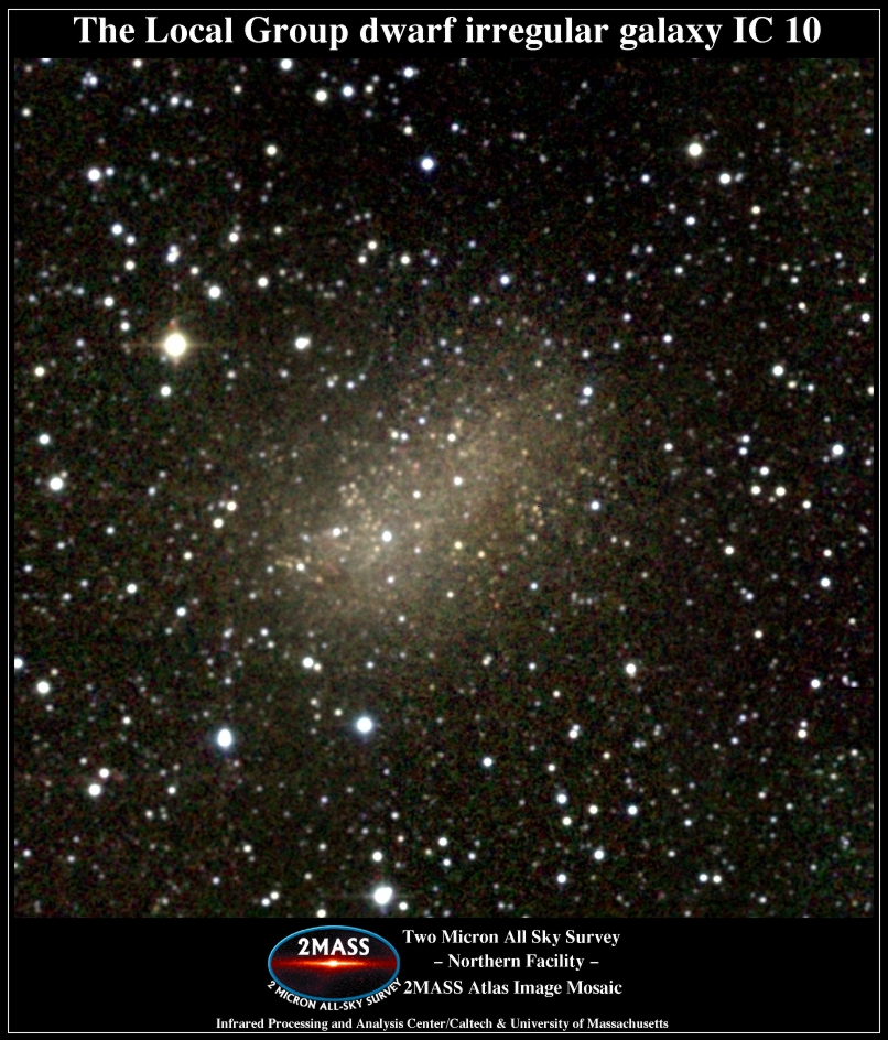 IC 10